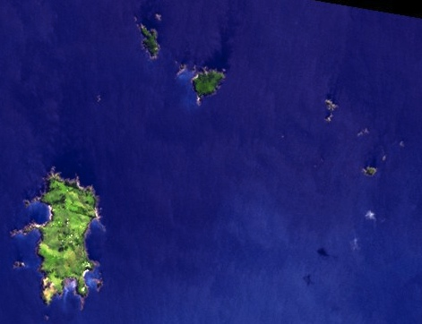 Satellite image of Rakino and the Noises, in New Zealand's Hauraki Gulf. Cropped from linked from here, in the ASTER Volcano Archive.